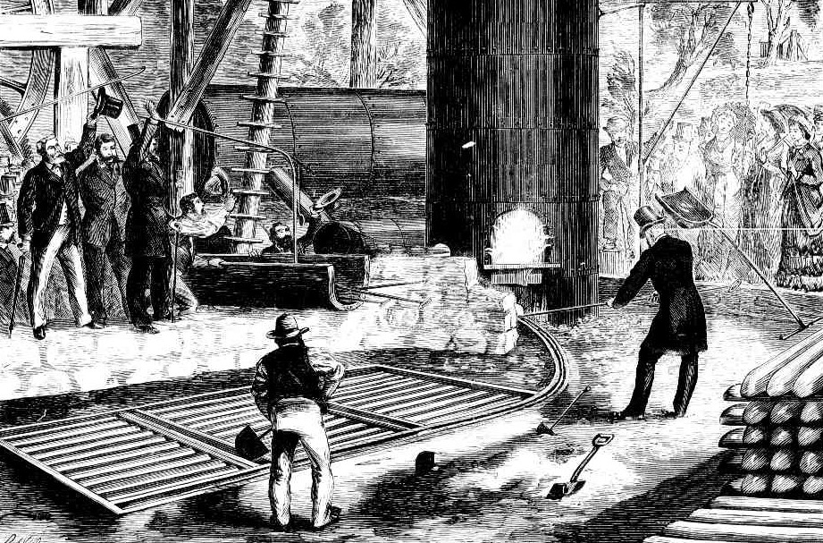 This is a newspaper illustration from The Illustrated Adelaide News (SA 1875 - 1880) Wed 1 Jan 1879 Page 10. It shows the first iron poured in October 1878 from the refurbished blast furnace at Lal Lal, Victoria, Australia. It could be the official opening by the Premier of Victoria.